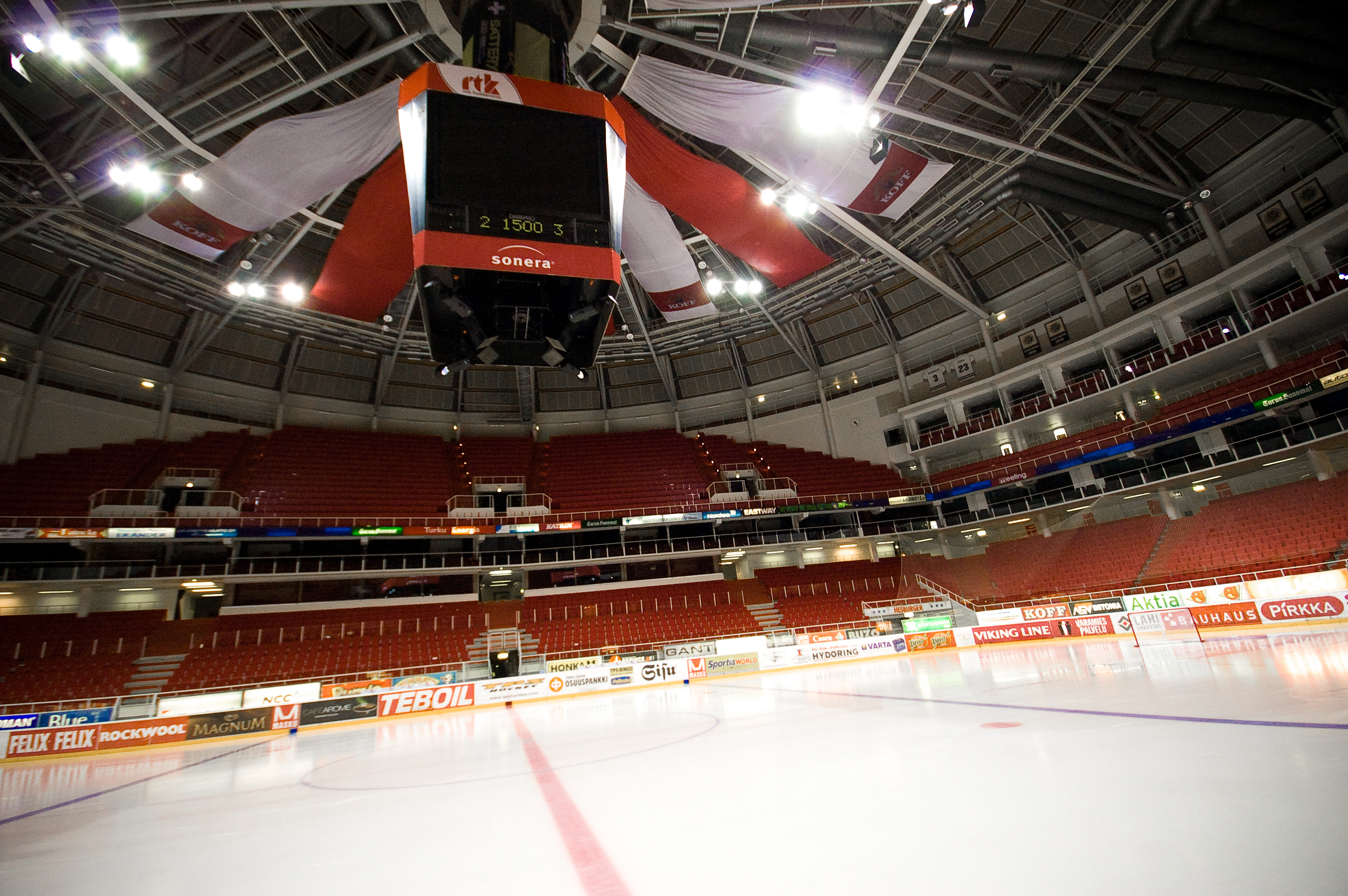 Turkuhalli (former names given by previous sponsors: Elysée Arena and Typhoon Arena) is an arena in Turku, Finland.